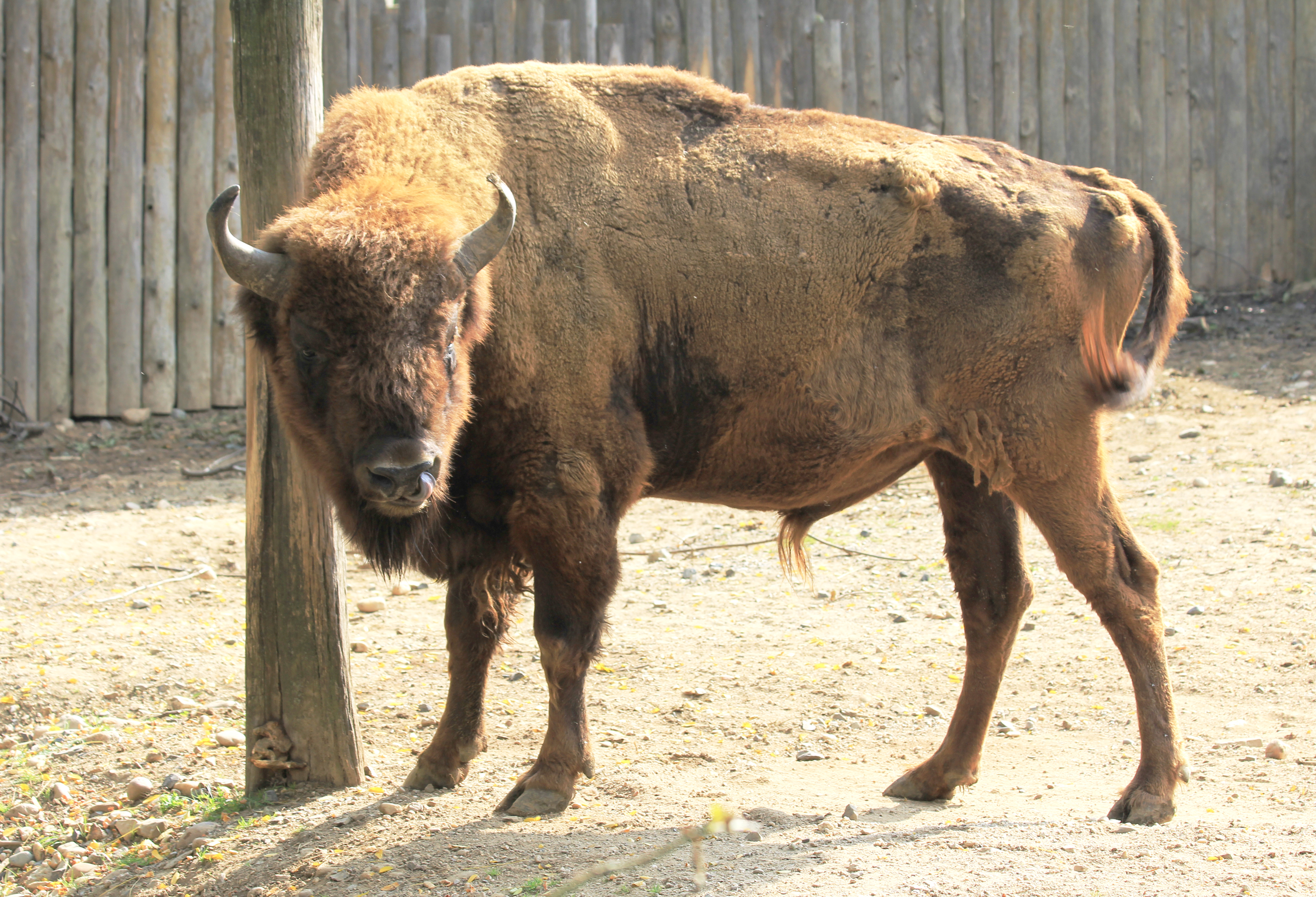 Wisent (Bison bonasus) in Prague Zoo, Czech Republic